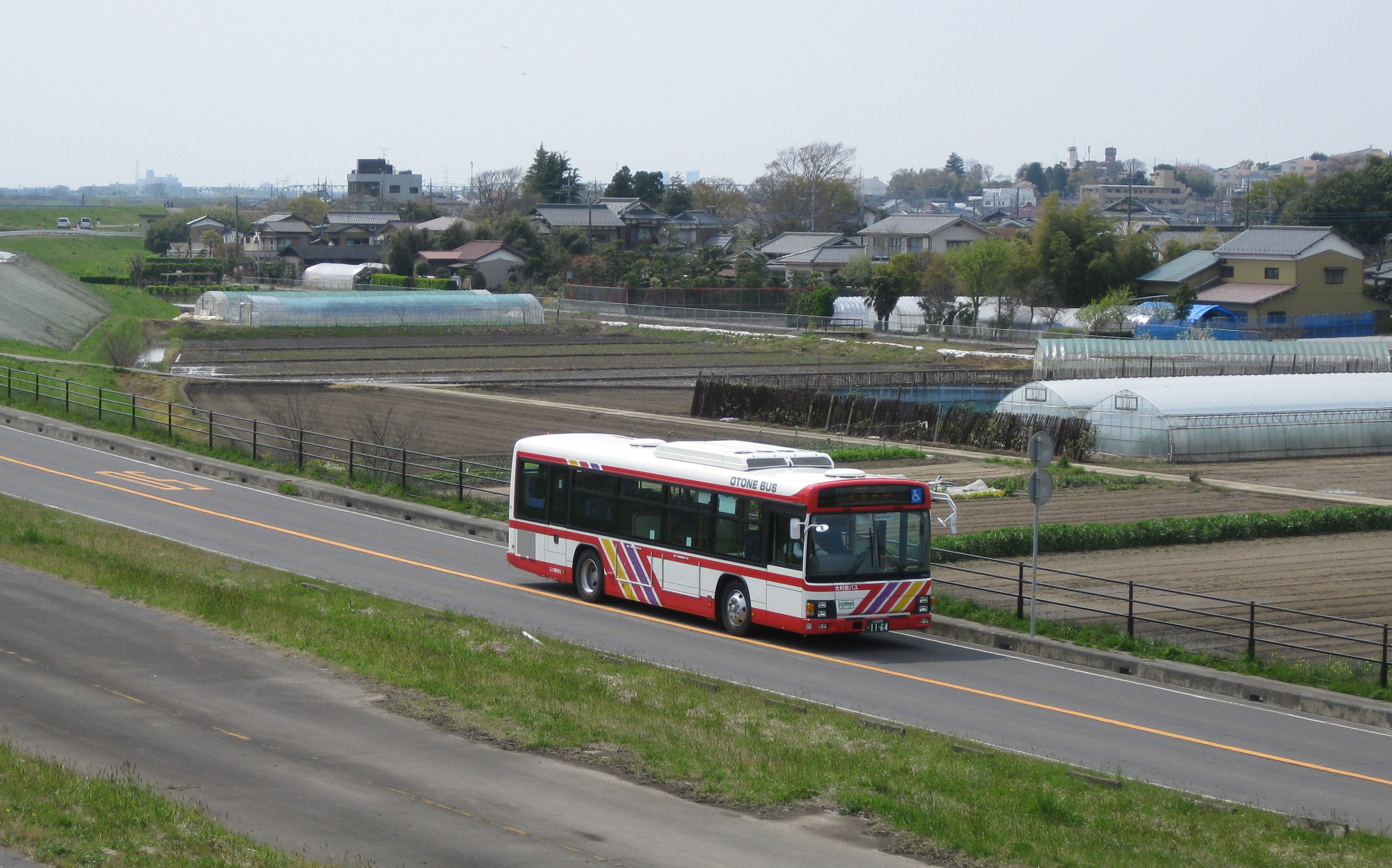 Otone kotsu bus that runs in suburbs in Ibaraki Prefecture Toride City(Japan).